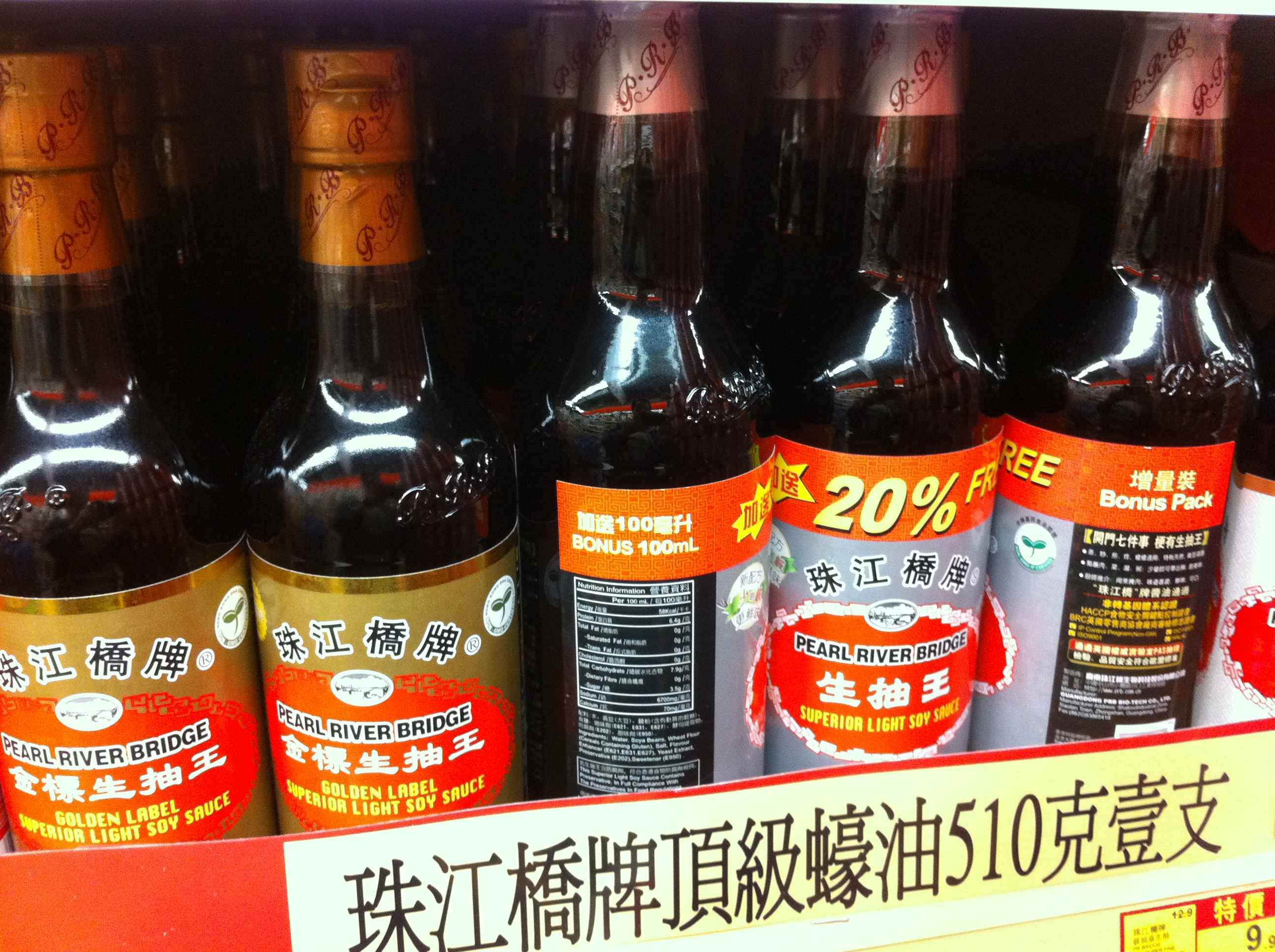 珠江橋牌